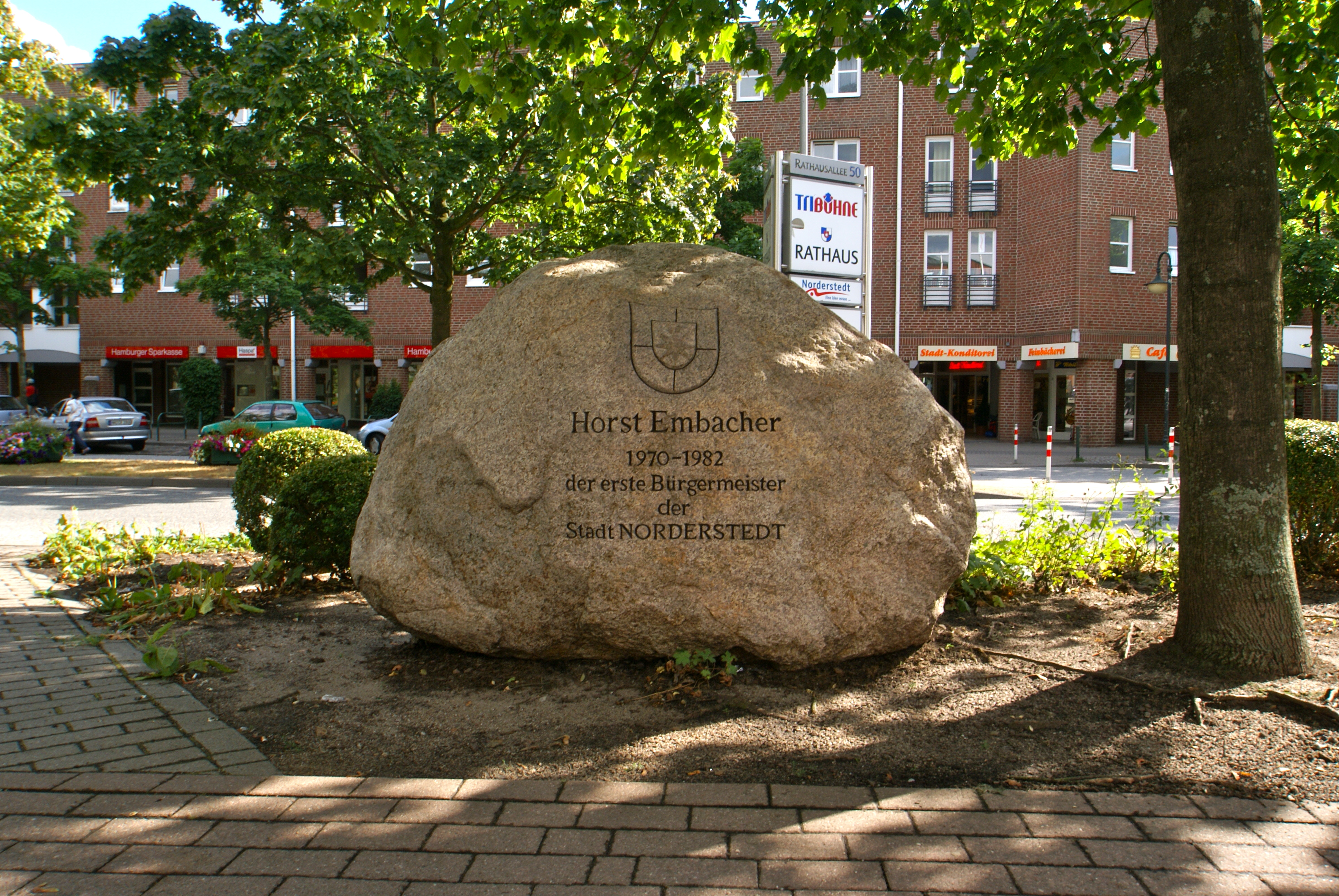 Norderstedt (Germany): Memorial for the first lord mayor Horst Embacher